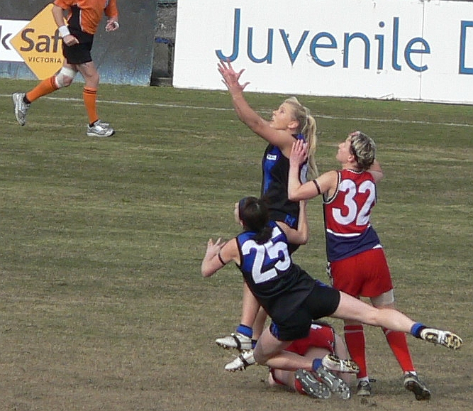 Female Aussie Rules player taking an overhead mark in an aerial contest.